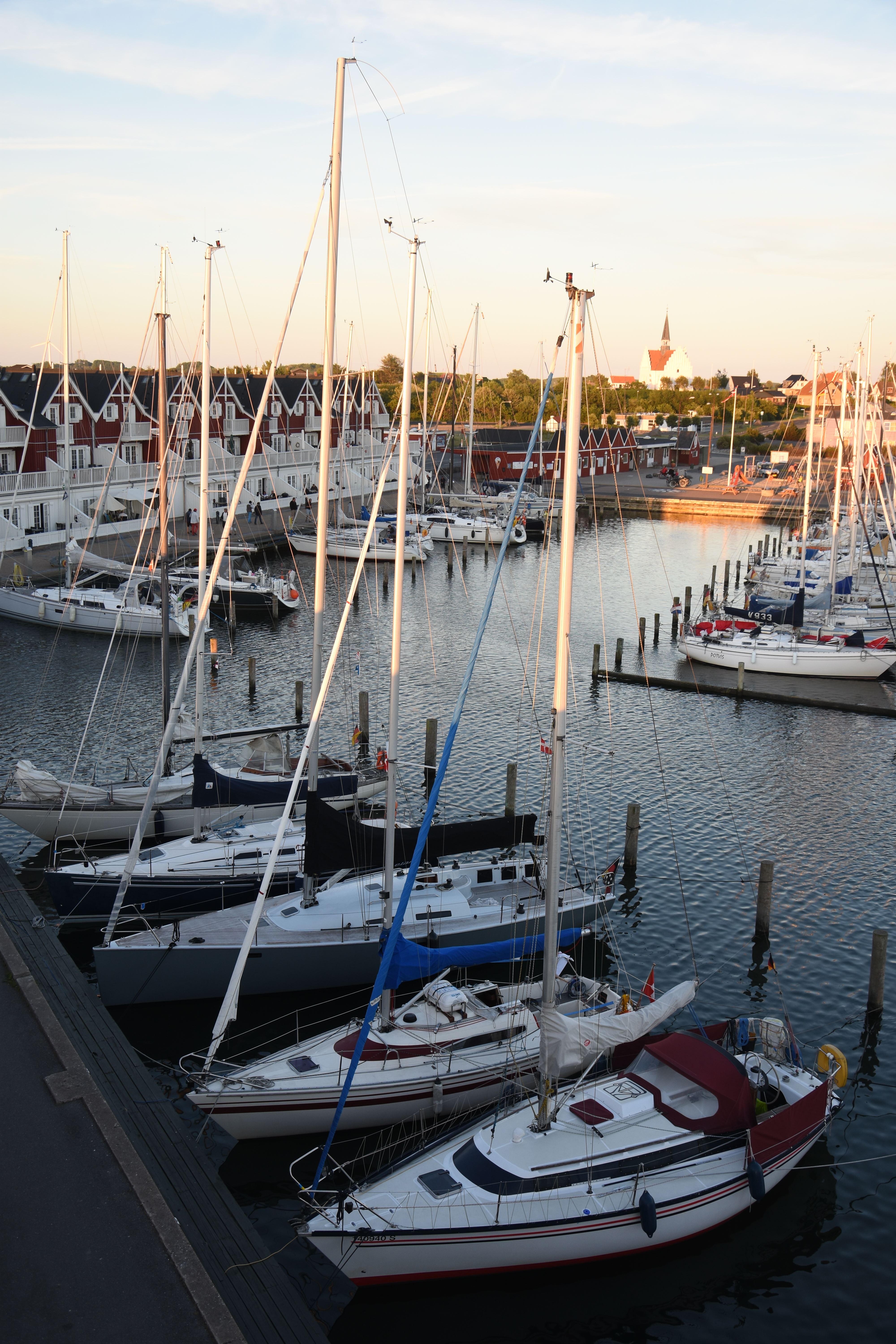 Yacht harbour in Bagenkop, Denmark at Sunset